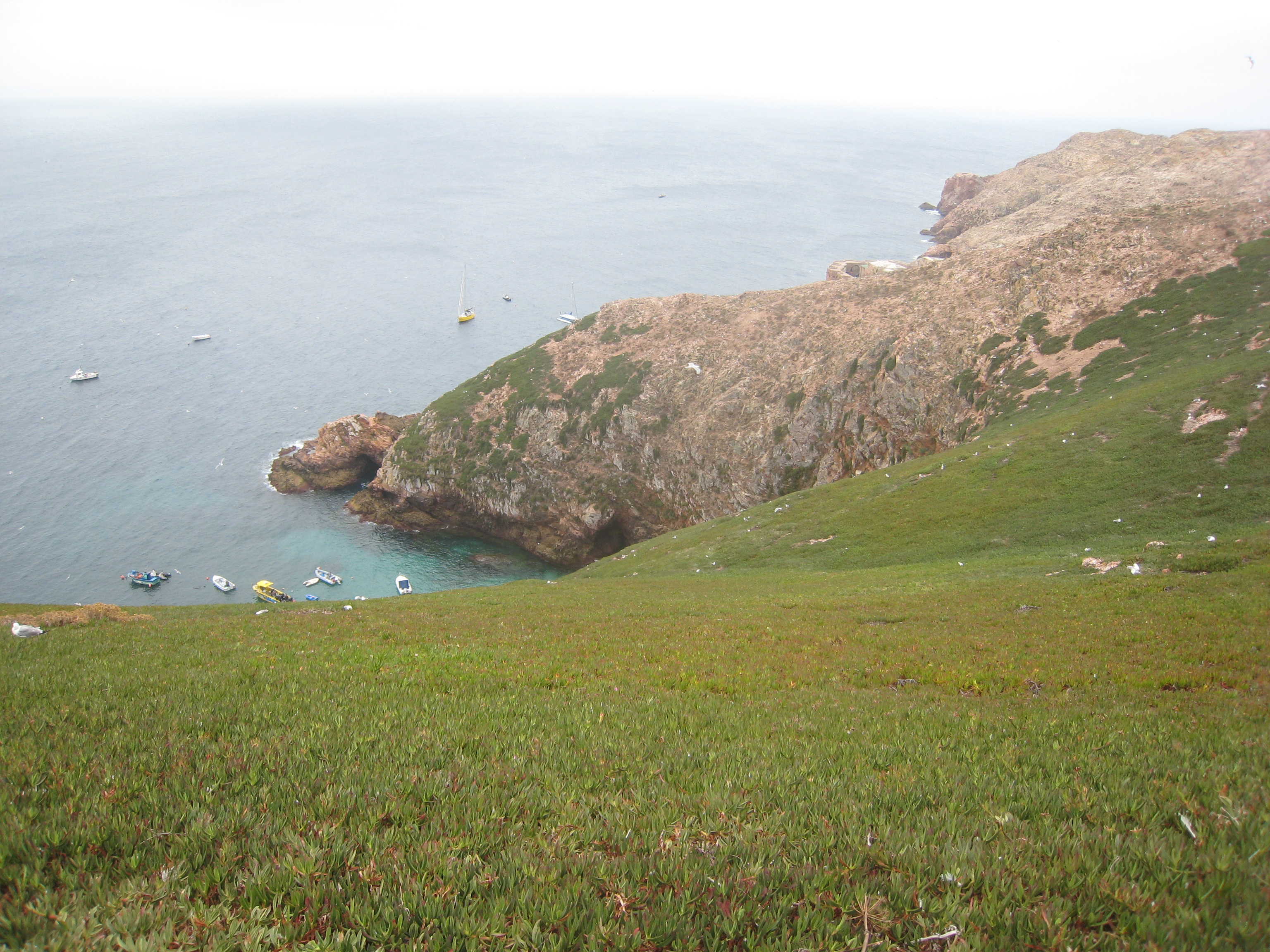 Berlengas, Portugal